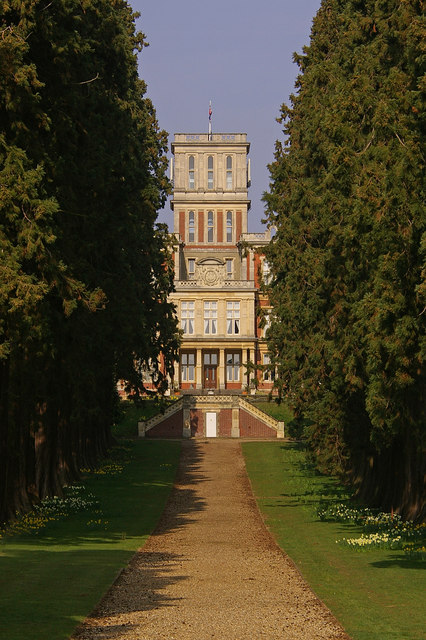 Royal Earlswood Park. See 1213281 for info. This is a view of the original main entrance, seen through the avenue of Redwoods that lined the original driveway.